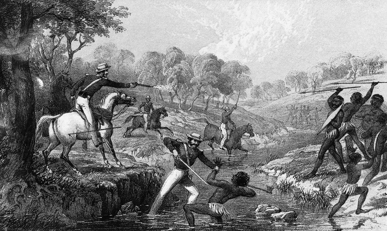 'Mounted Police and Blacks' depicts the massacre of Aboriginal people at Waterloo Creek by British troops. Tinted lithograph Held at Australian War Memorial - ART50023.